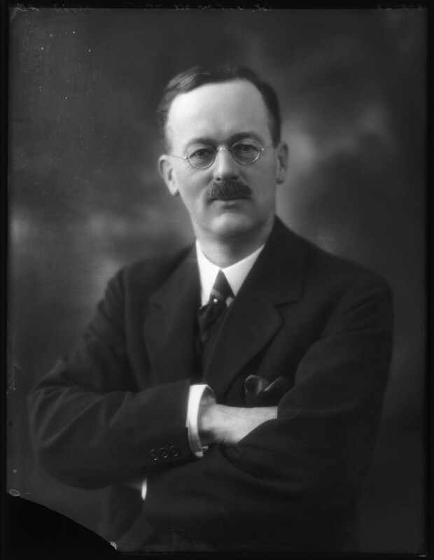 Asseton Pownall